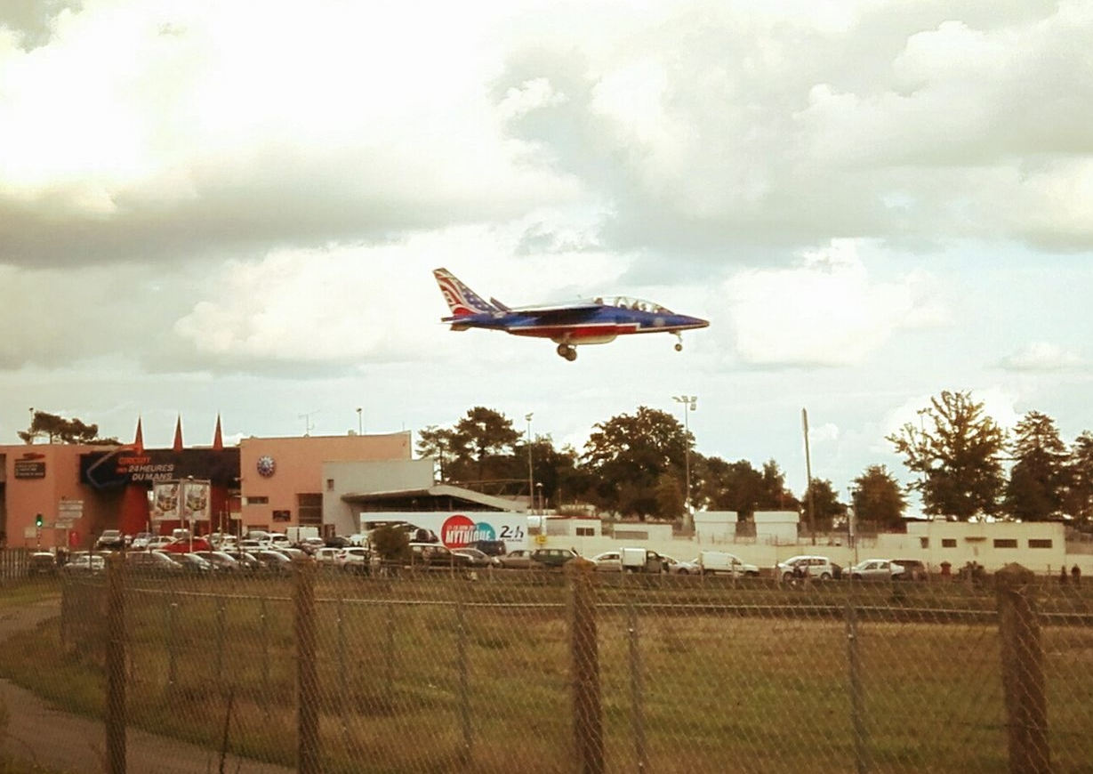 French "Patrouille du France" at 24 H of Le Mans 2017